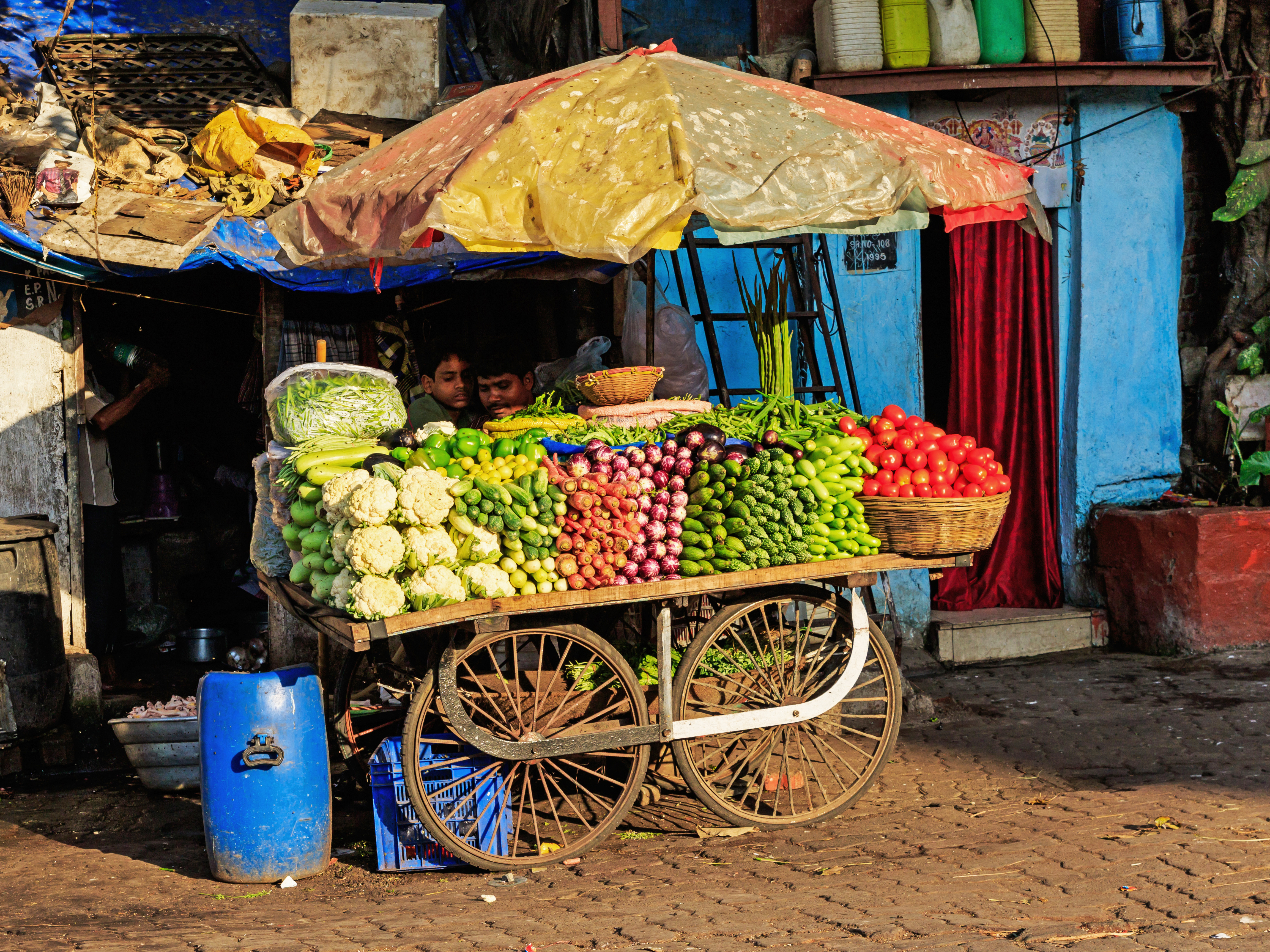 Near surroundings of Masjid railway station in Mumbai, India